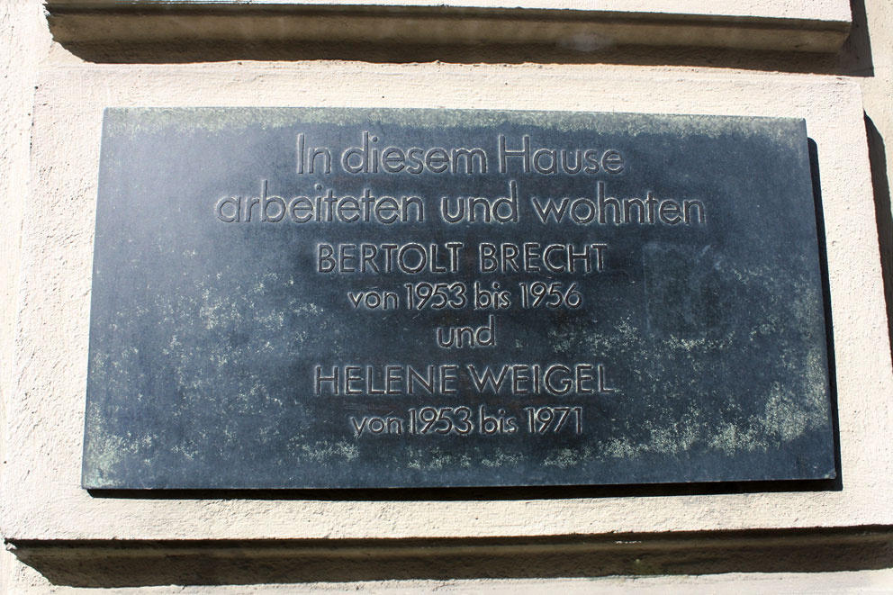 Literaturforum im Brecht-Haus Berlin, Gedenktafel